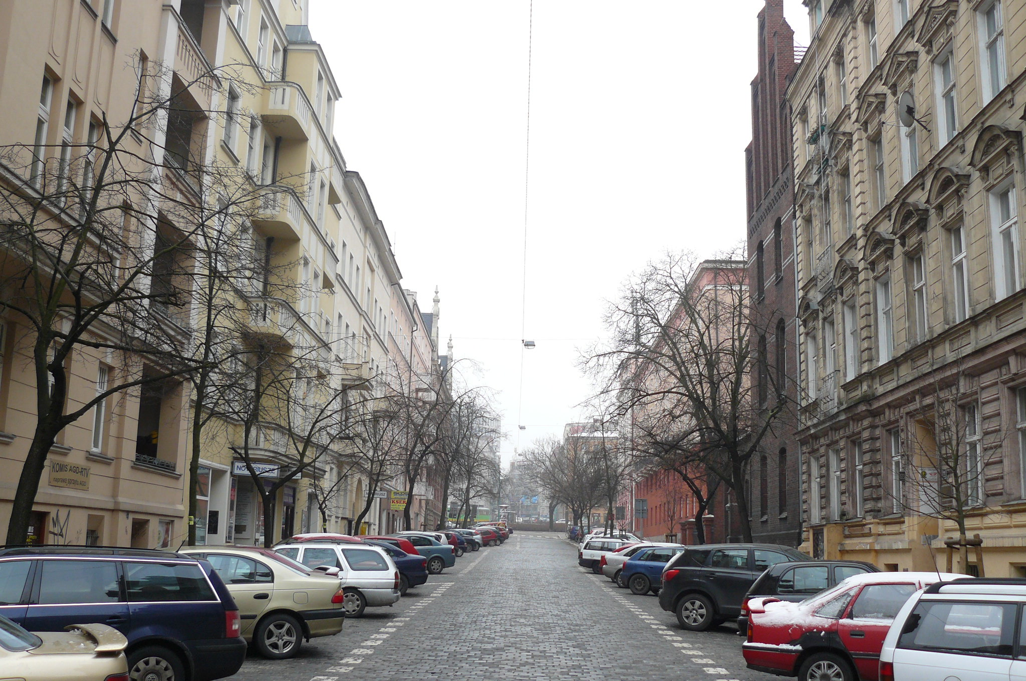 Mlynska Street, Poznan.